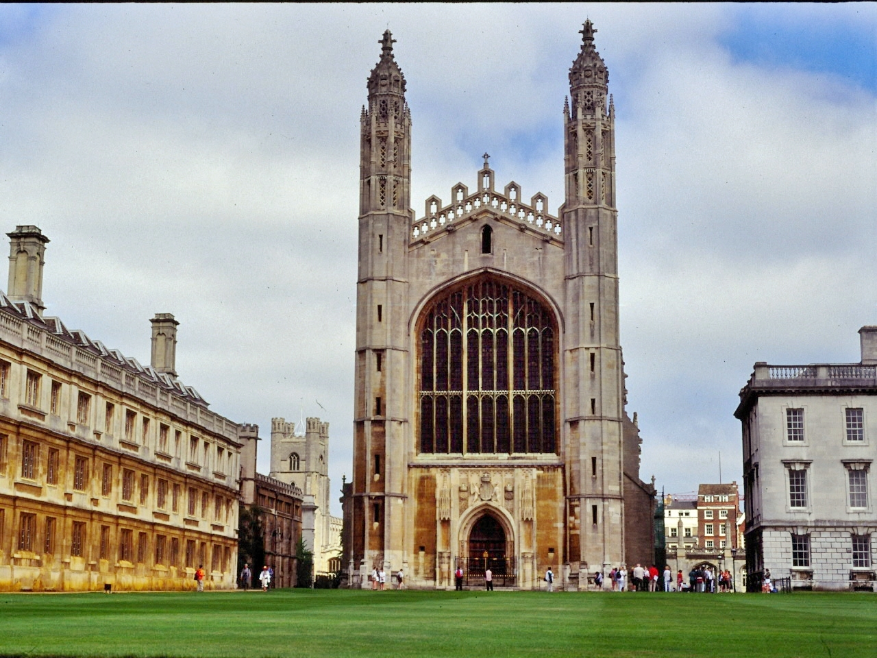 King's College is part of the University of Cambridge in Cambridge, England. Formally named The King's College of Our Lady and Saint Nicholas in Cambridge, the college lies on the River Cam and faces out onto King's Parade in the centre of the city. King's was founded in 1441 by Henry VI, soon after he had founded its sister college in Eton. However, the King's plans for the college were disrupted by the civil war and resultant scarcity of funds, and his eventual deposition. Little progress was made on the project until in 1508 Henry VII began to take an interest in the college, most likely as a political move to legitimise his new position. The building of the college's chapel, begun in 1446, was finally finished in 1544 during the reign of Henry VIII.